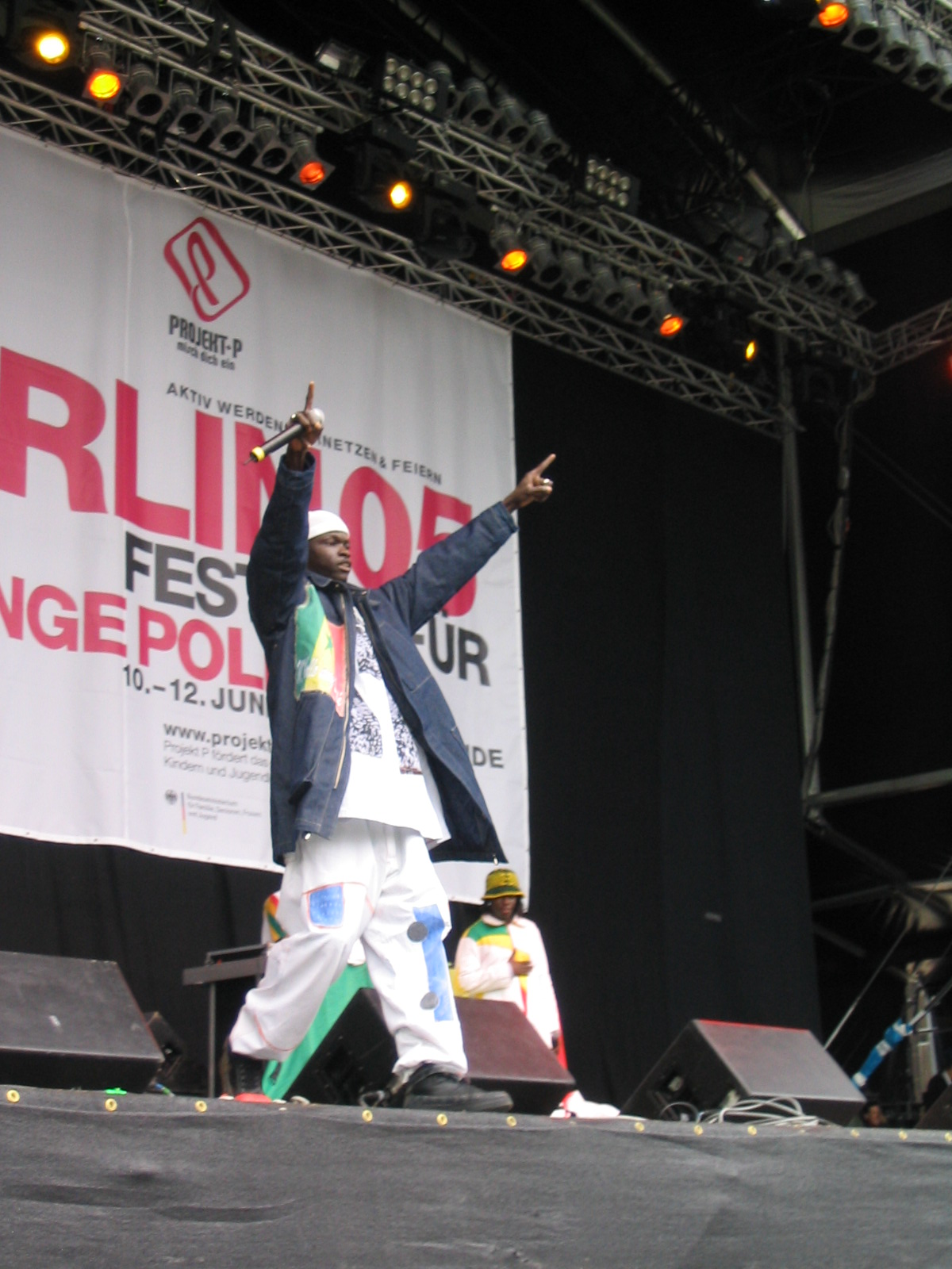 Darra J at the Berlin 05 festival